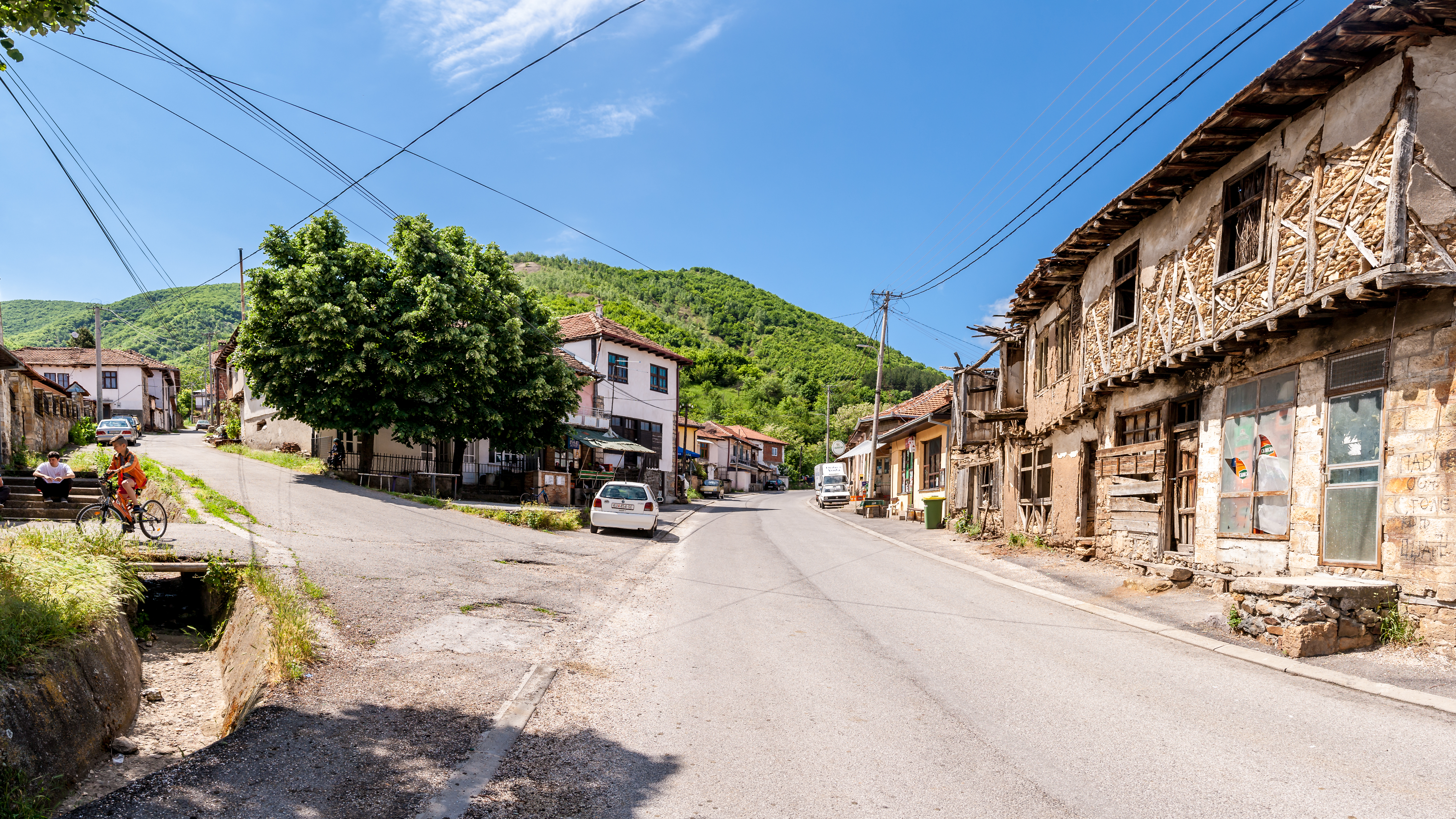 The center of the village Šlegovo